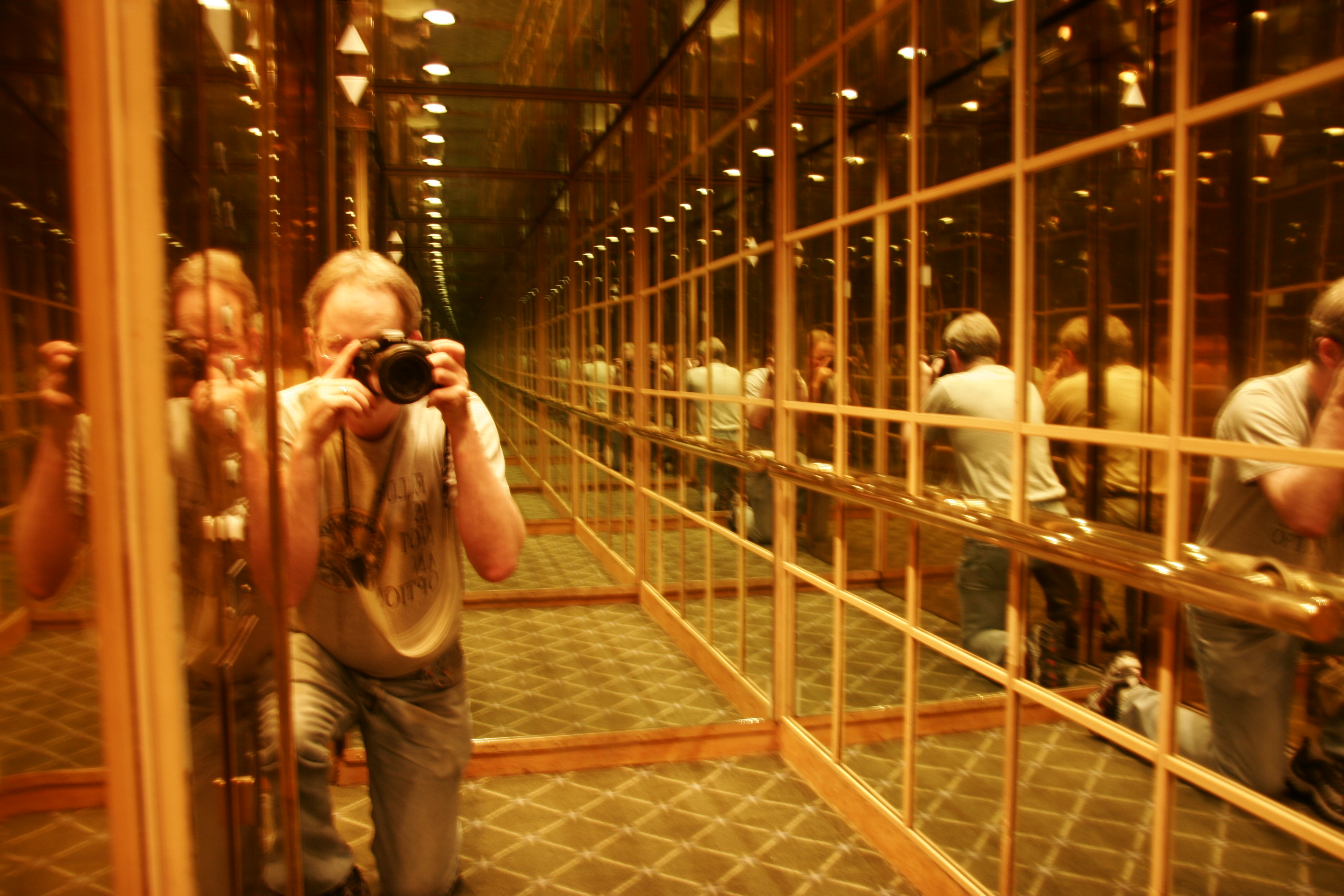 Kneeling for Infinity (Self-portrait)